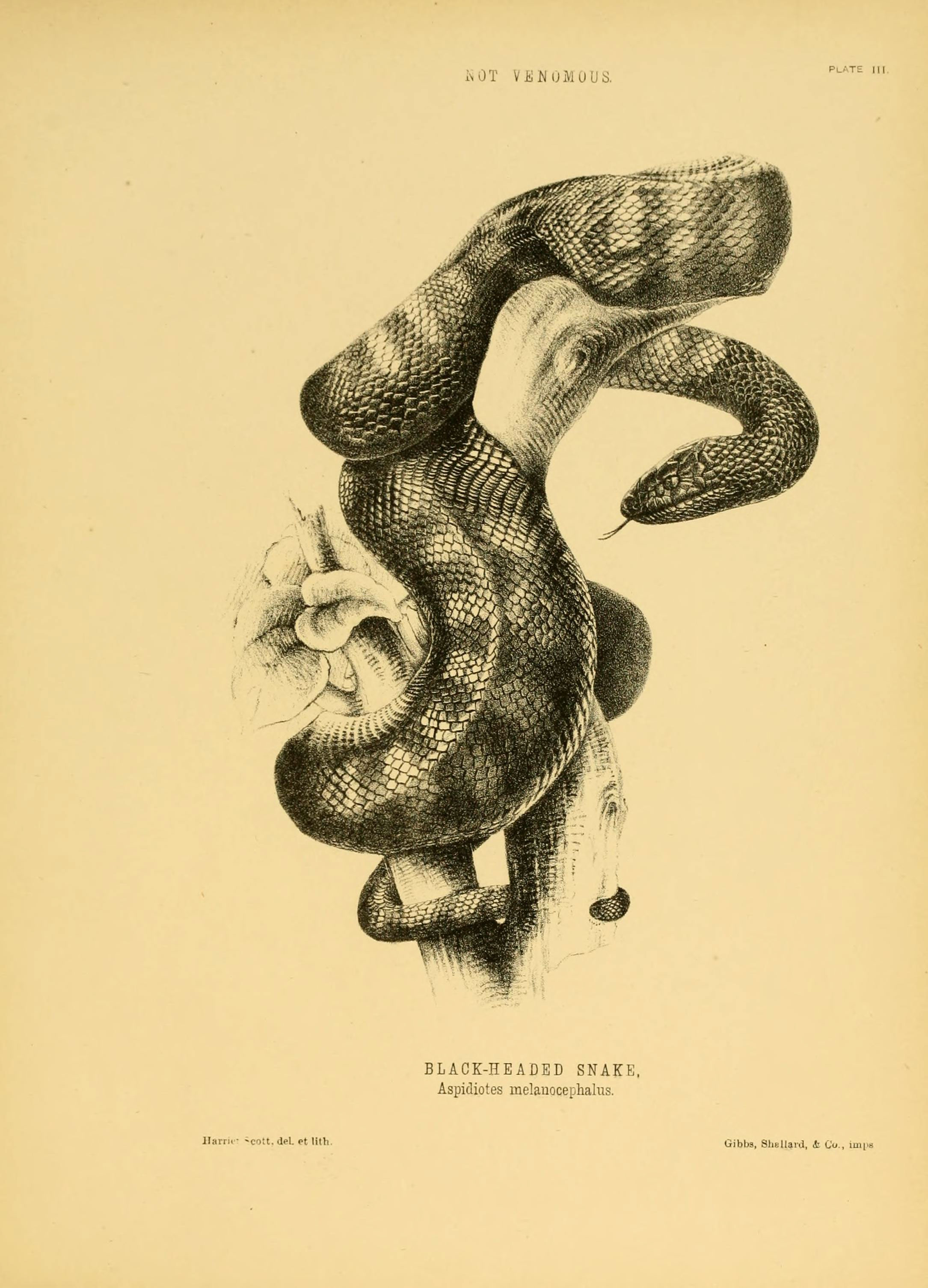 Illustration of a Black-headed snake by Harriet Scott from the Snakes of Australia by Gerard Krefft 1869.